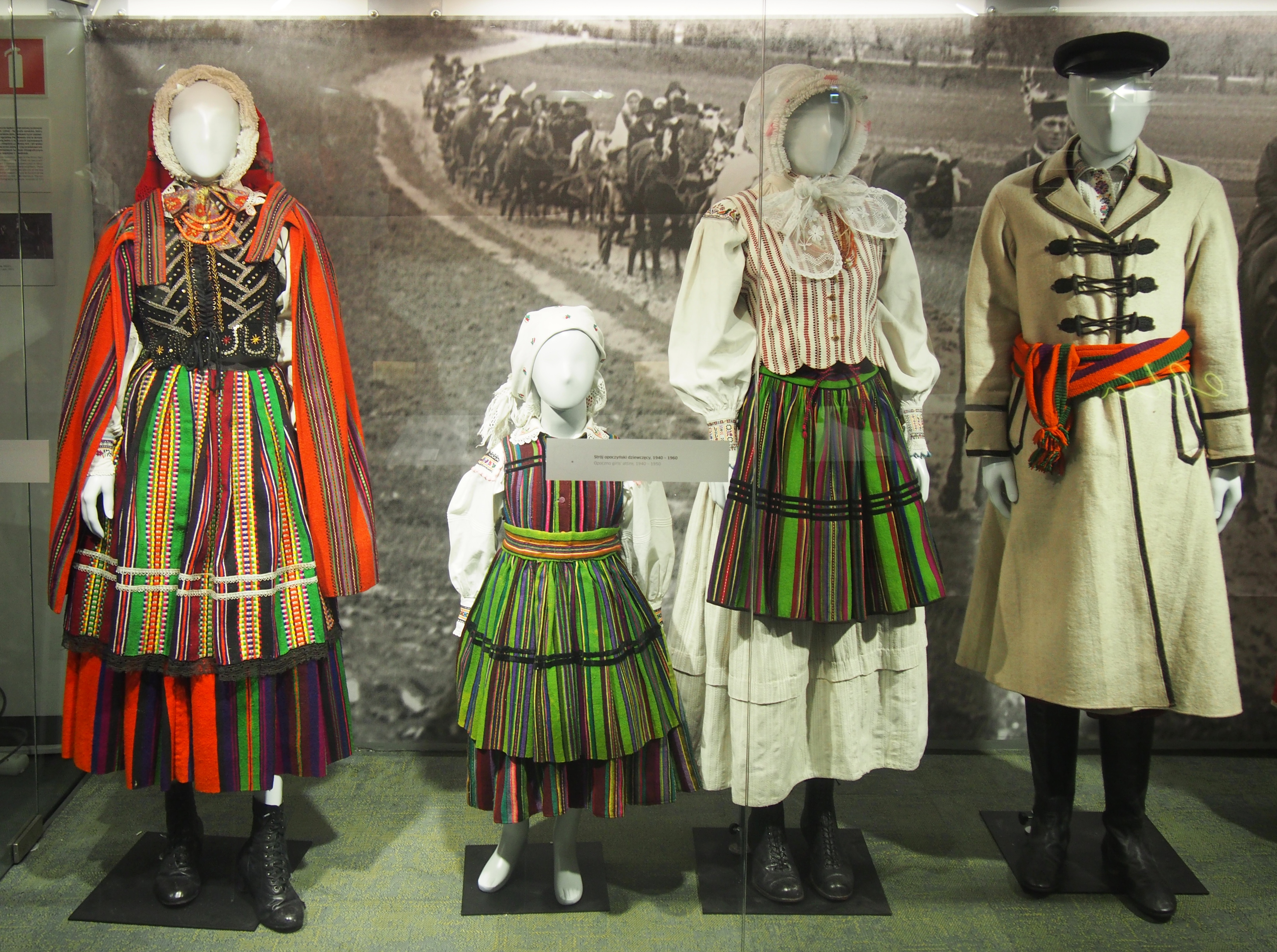 Attires at National Ethnographic Museum in Warsaw, from the left: Piotrków women's attire (1920-1940), Opoczno girl's attire (1940-1960), women's and men's attire.